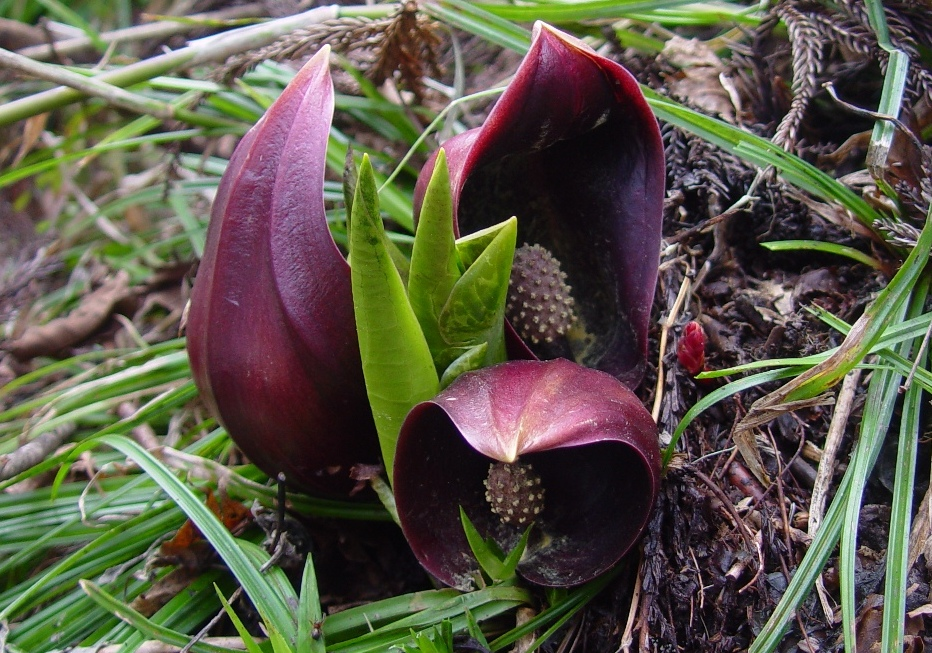 Symplocarpus foetidus in Mount Nobuse, Gujō, Gifu prefecture, Japan.